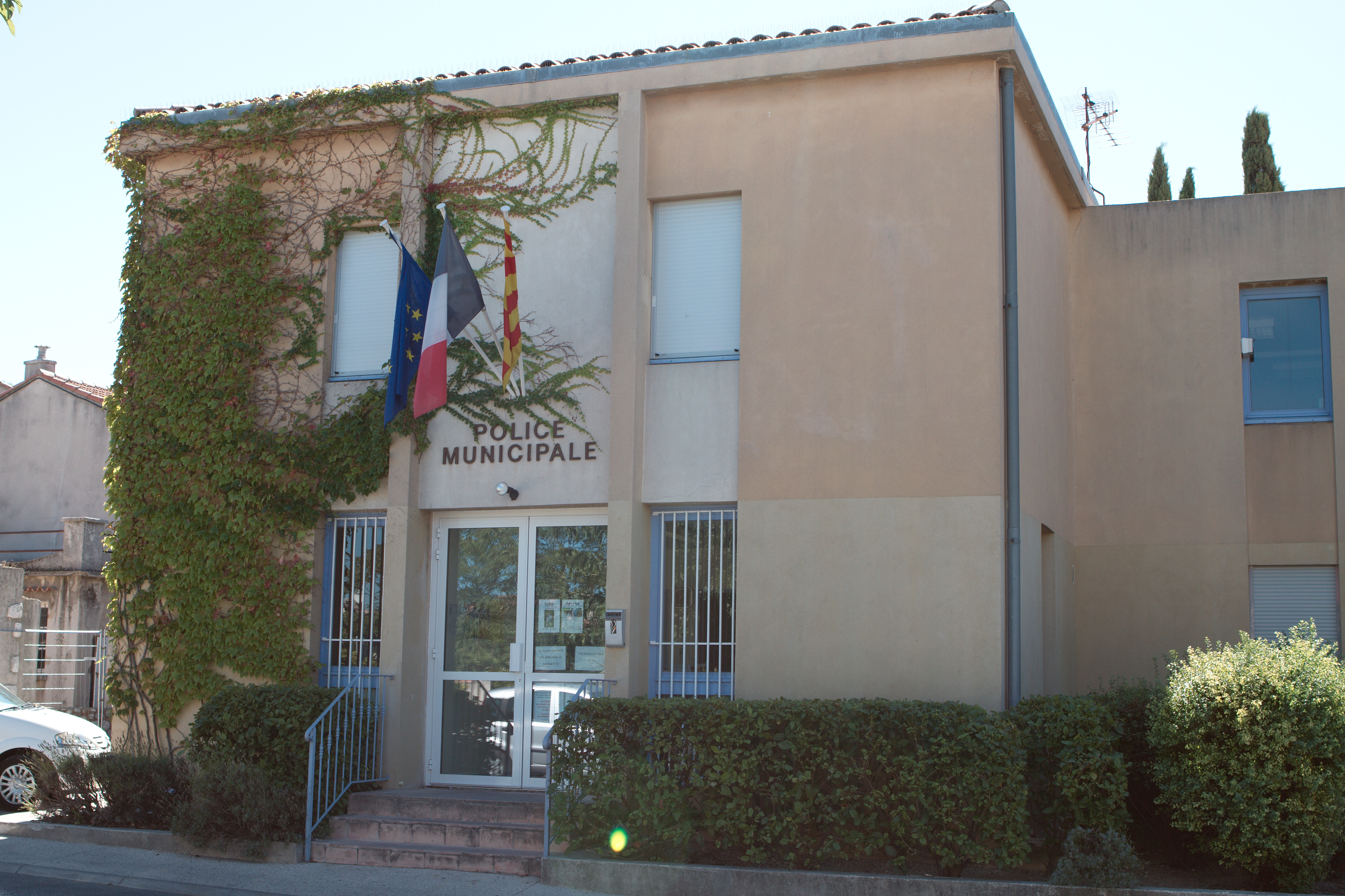 The Municipal Police in Bouc-Bel-Air, Bouches-du-Rhône (France).